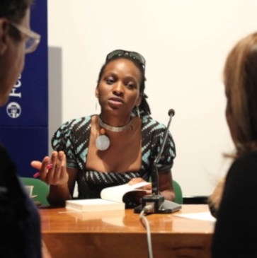 Chika Unigwe Biography: "Africani d'Europa / africani in Europa", a round table organised by lettera27, curated by Paola Splendore and Sandro Triulzi , coordinated by Igiaba Scego with the authors Chika Unigwe, Jadelin Mabiala Gangbo and Najat El Hachmi. Mantova 09/12/09 Know more about lettera27 Foundation